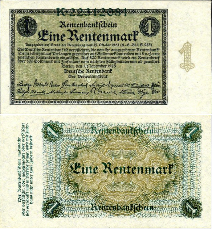 1 Rentenmark from 1923-11-1 equivalent to 1 trillion Papermark from inflation time